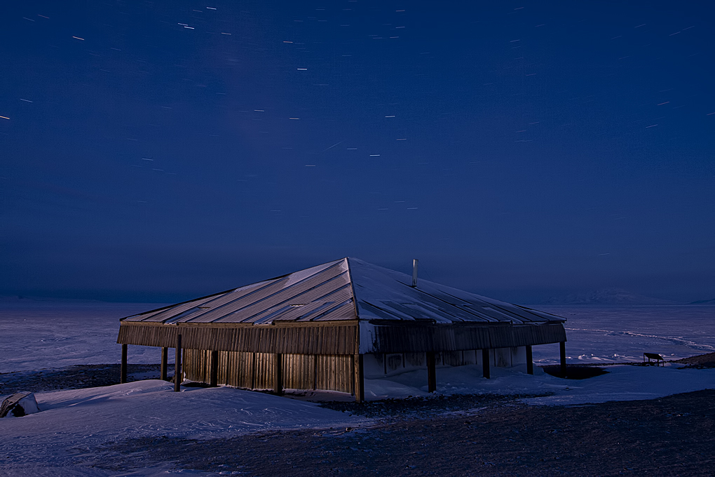 Discovery Hut or Scott's Hut built in 1902 sits at Hut Point near McMurdo Station Antarctica.